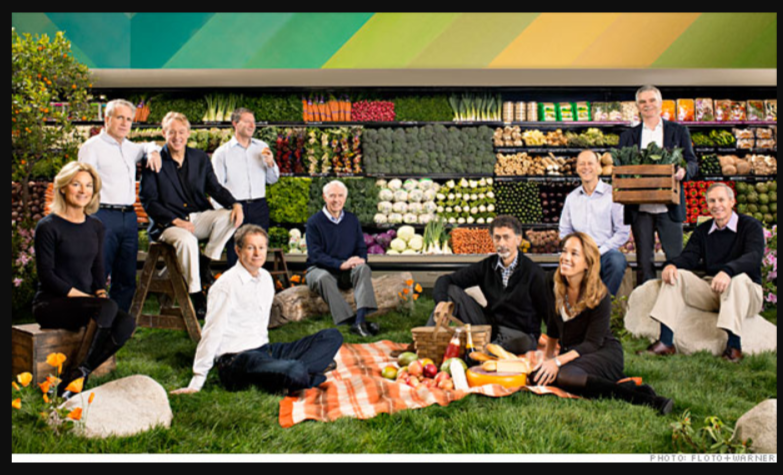 Wholefoods Board Members Fortune Mag Photo Shoot Stephanie Kugelman, chairman, A Second Opinion; former vice chairman and chief strategic officer